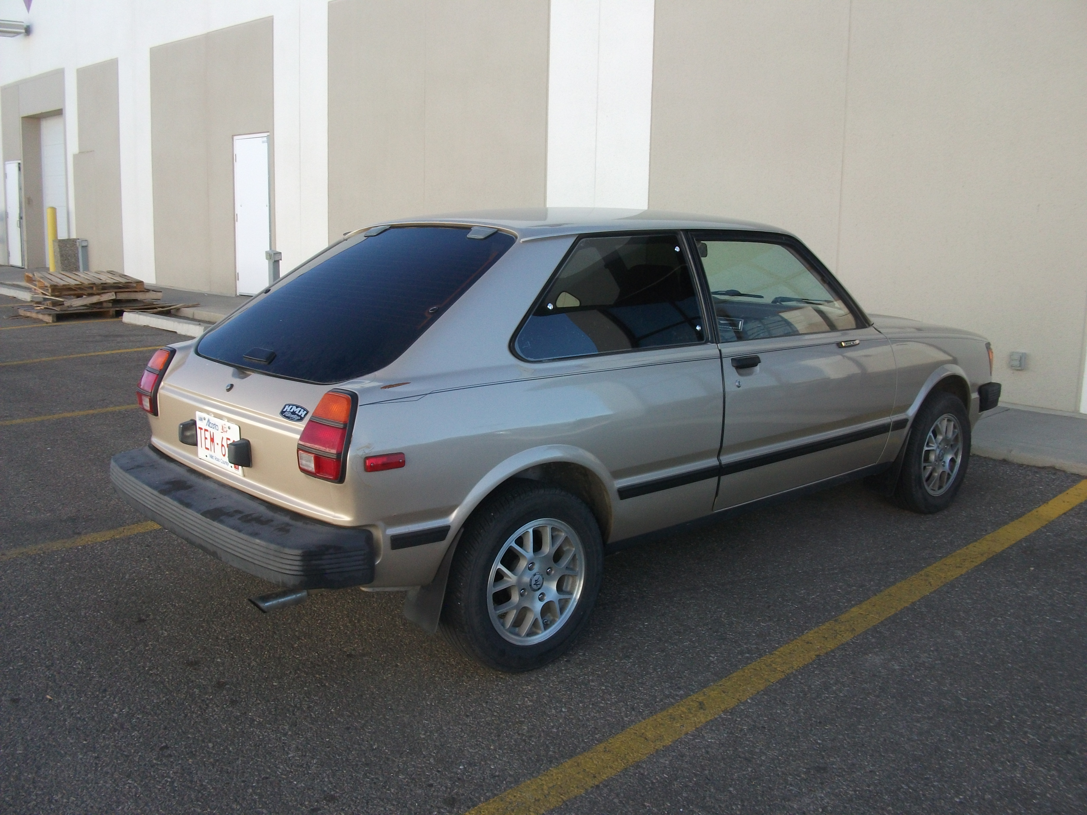 These early Toyota Tercels are quite uncommon now. This one sports larger after market wheels.